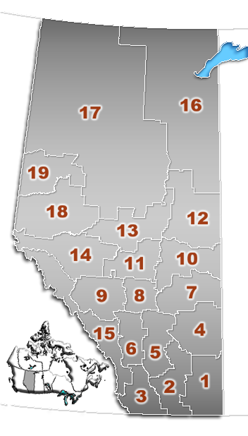 List of Alberta census divisions